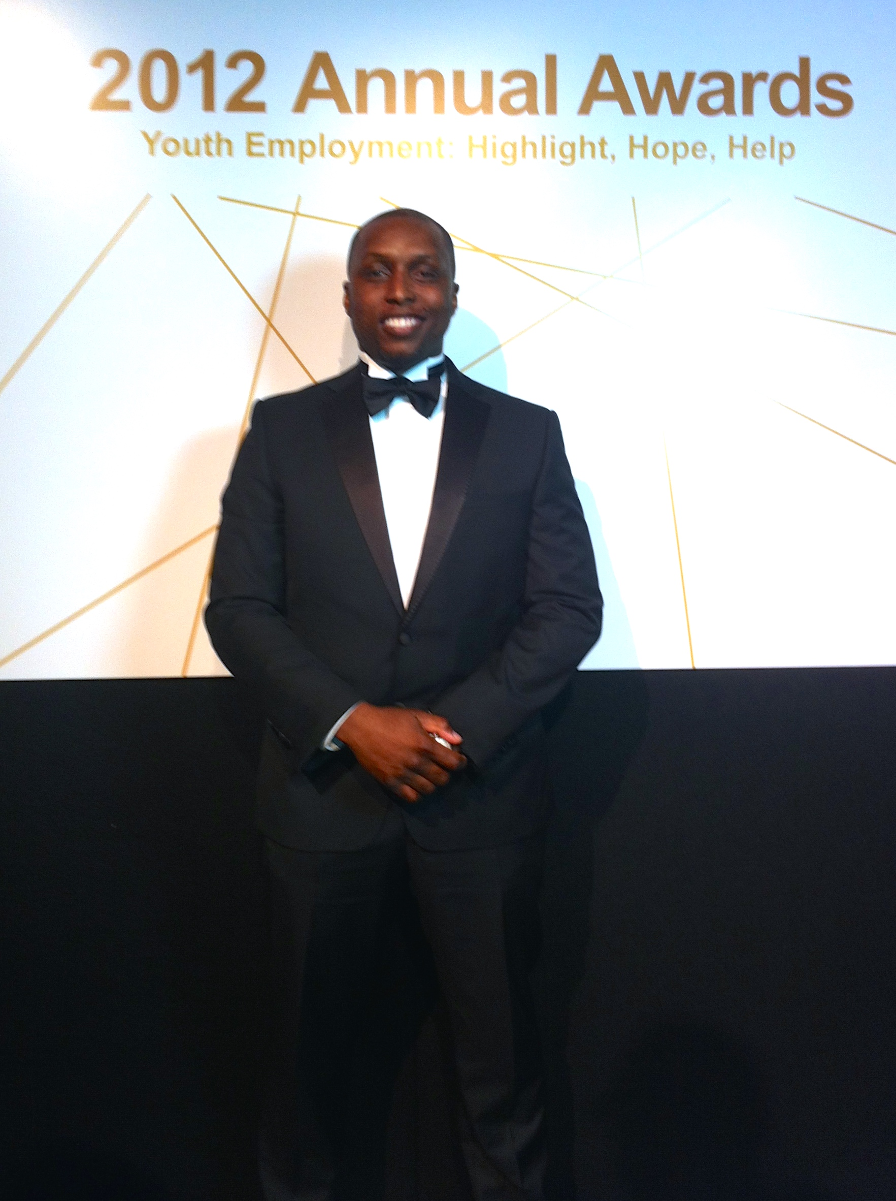 Marcus "Paradise" Dawes at Race for Opportunity Annual Awards 2012 Whoisparadise